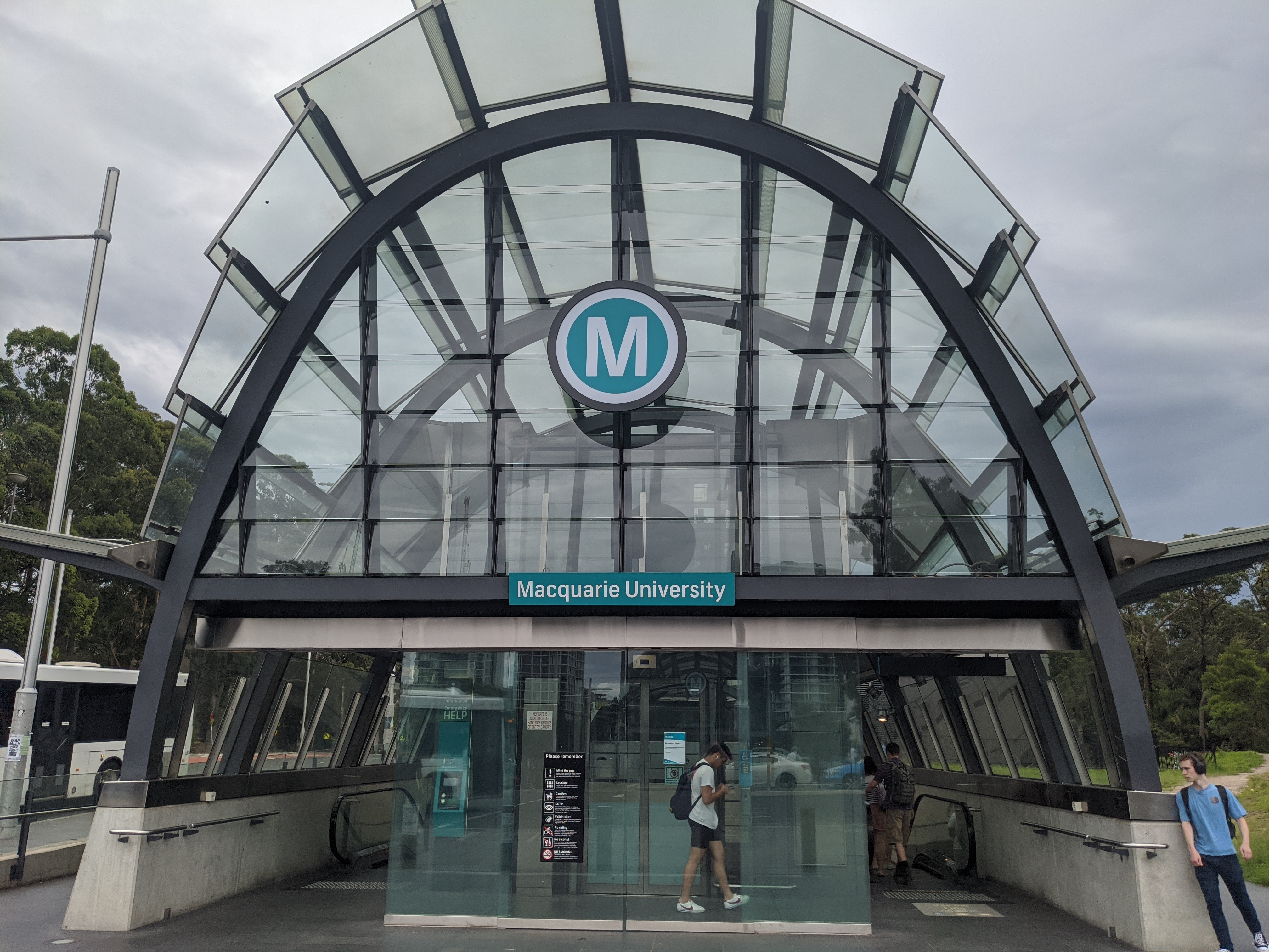 Macquarie University Station Entrance